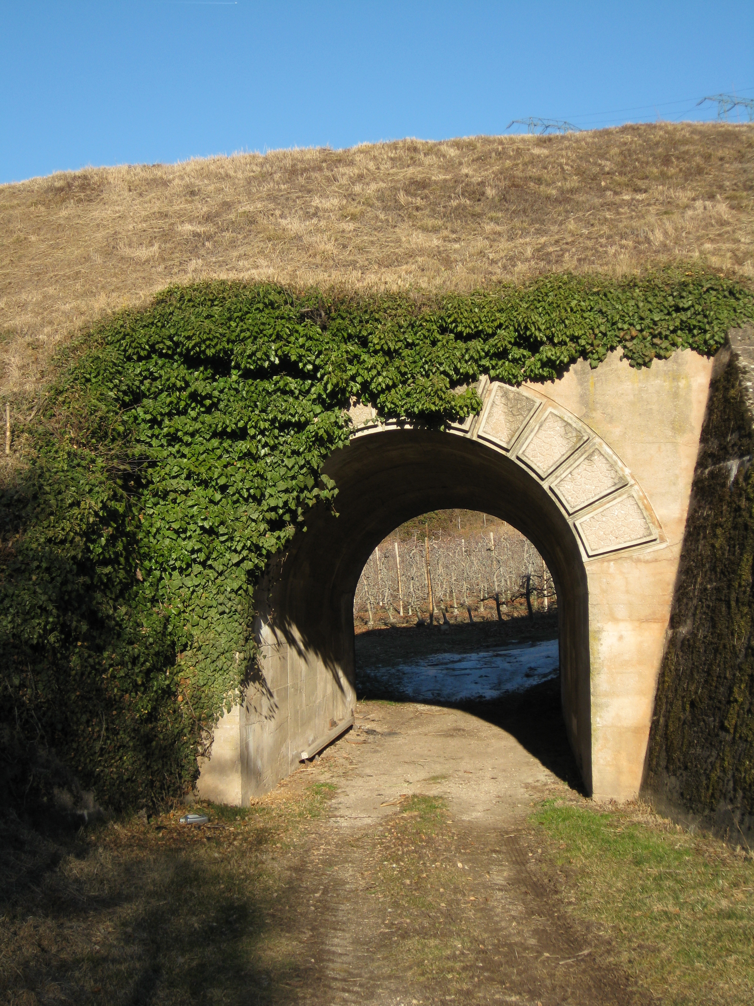 A tunnel of the old Fleimstalbahn (Fleimstal Railroad) on Castelfeder